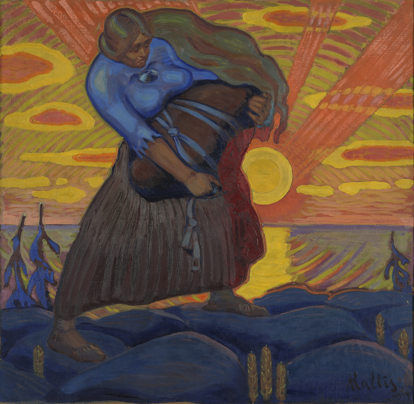 Oskar Kallis. Linda Carrying a Rock. 1917. Oil on canvas. EKM j 19006 M 5180.